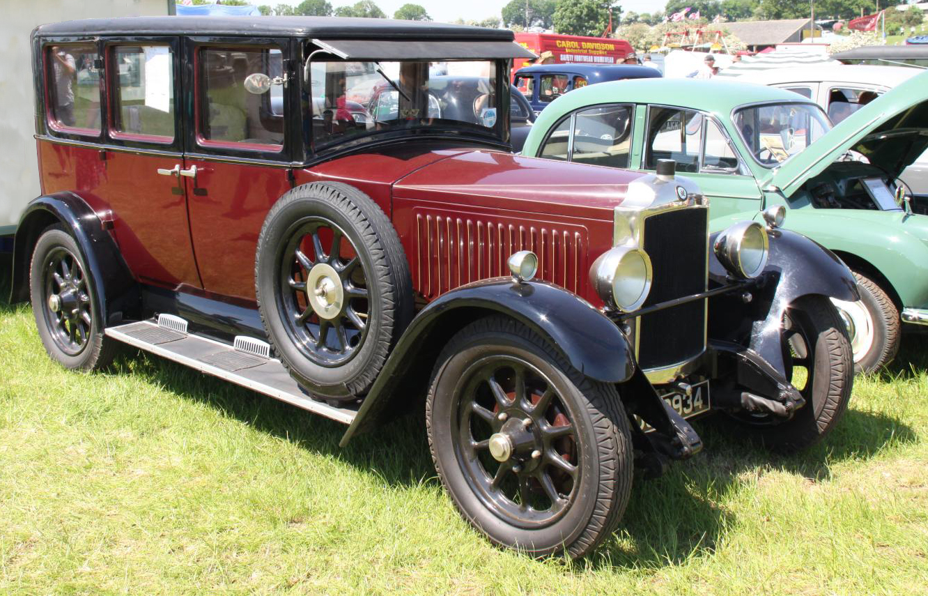 Vauxhall 20-60 about 1928 Woolpit Steam May 26th & May 27th 2012 Warren Farm, Wetherden